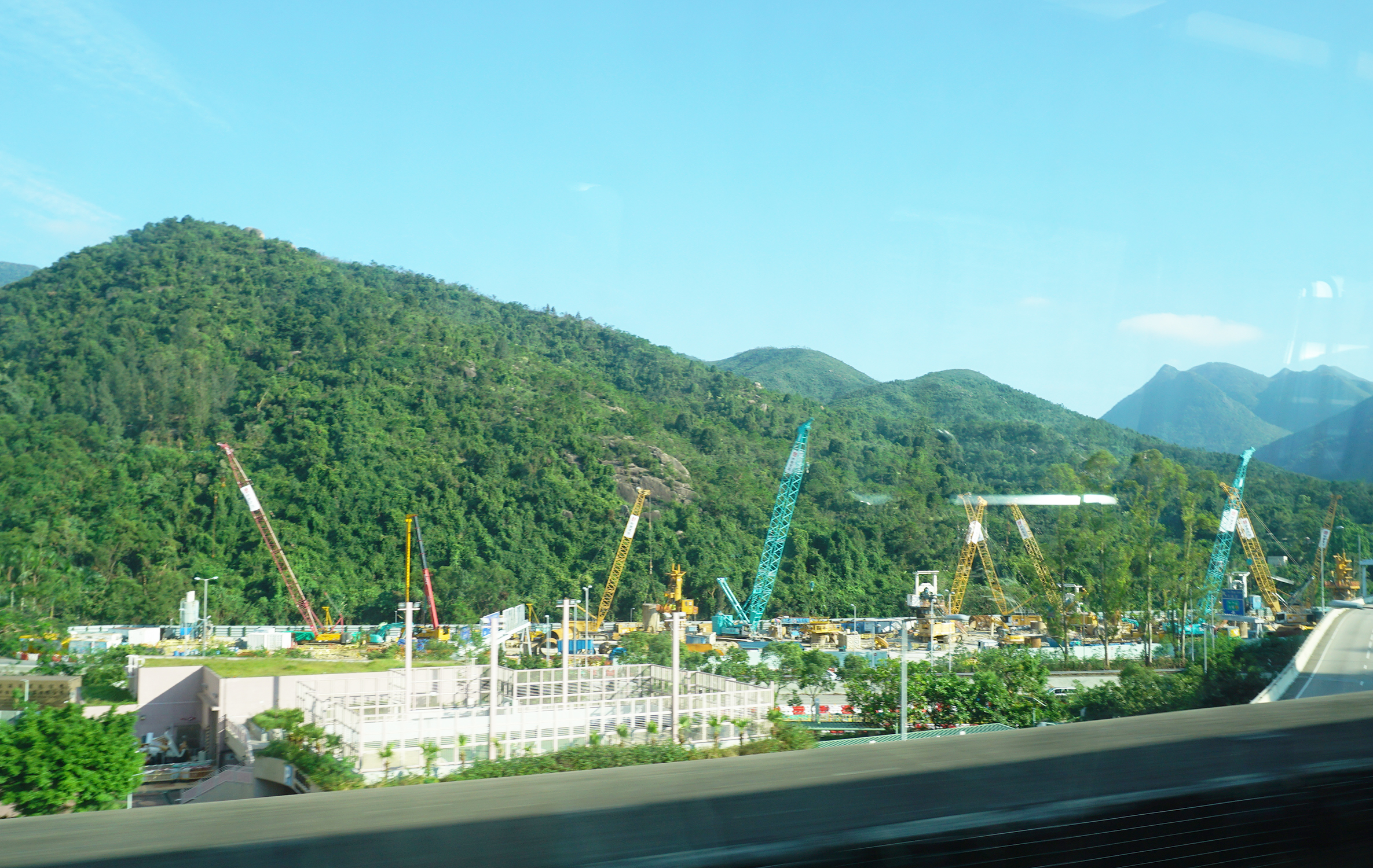 Kam Chun Court in Heng On, Hong Kong.